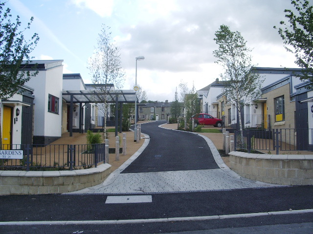 Hirst Gardens, Burnley These were built to house the former residents of Gerald Court, which was situated behind me